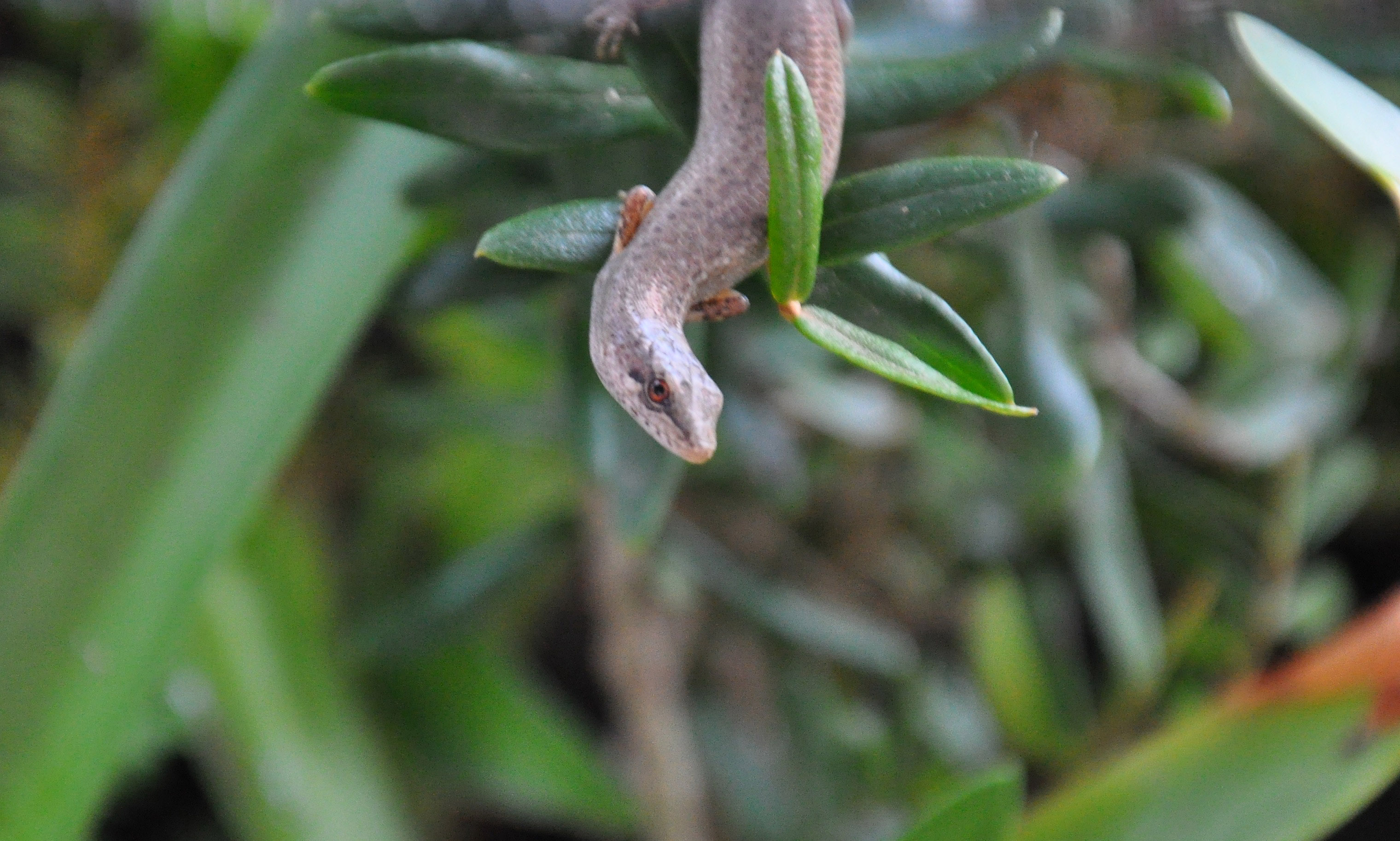 This photo is of a Southern Weasel Skink (Saproscincus mustelinus) found climbing in a small shrub.